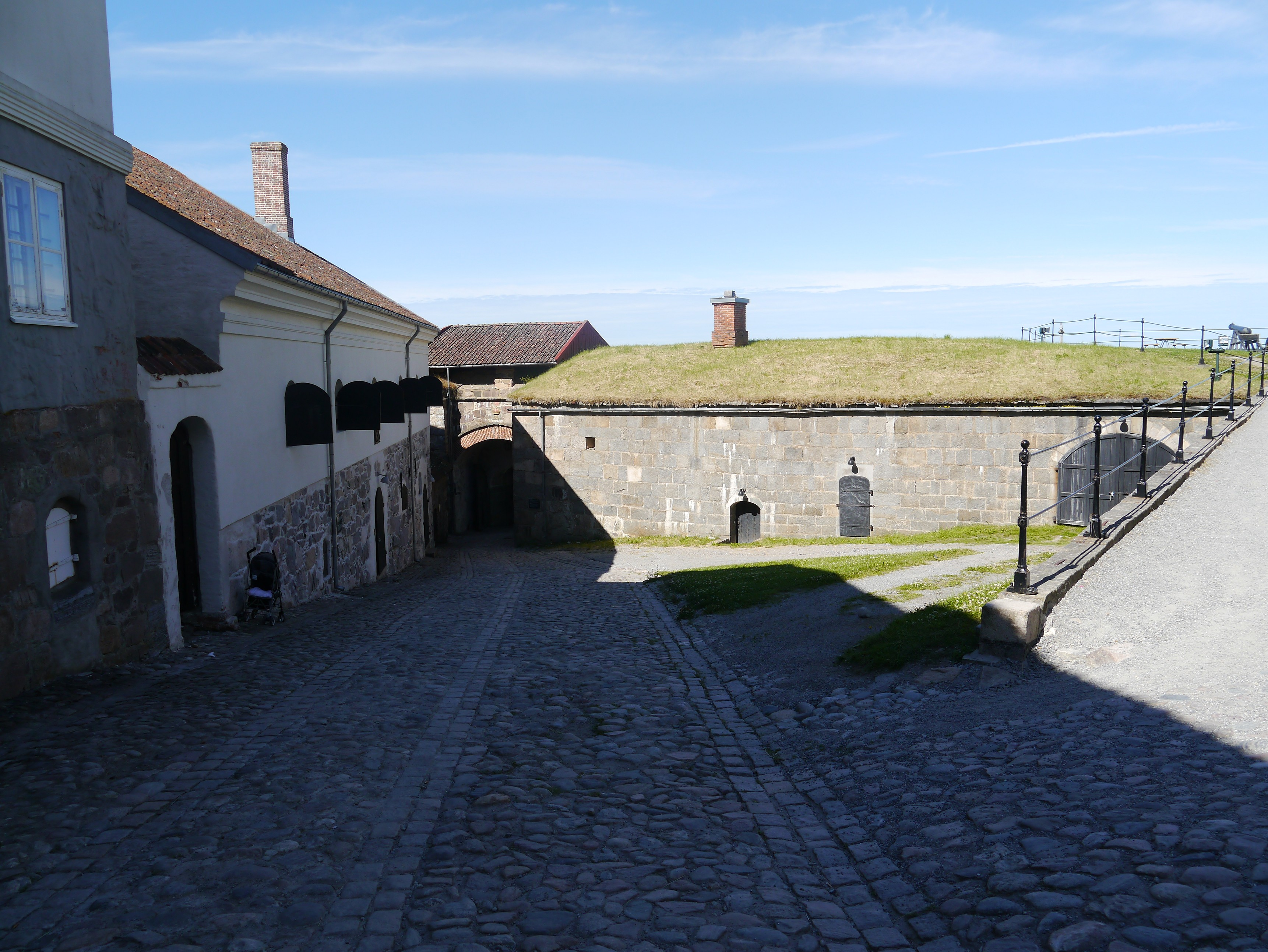 Fredriksten Fortress, Halden, Östfold County, Southern Norway